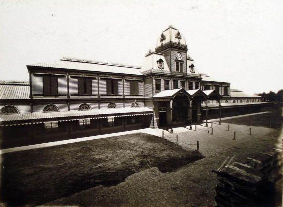 The Estación Central of Buenos Aires, the main railway station in the city. The building was destroyed by the fire in 1897.